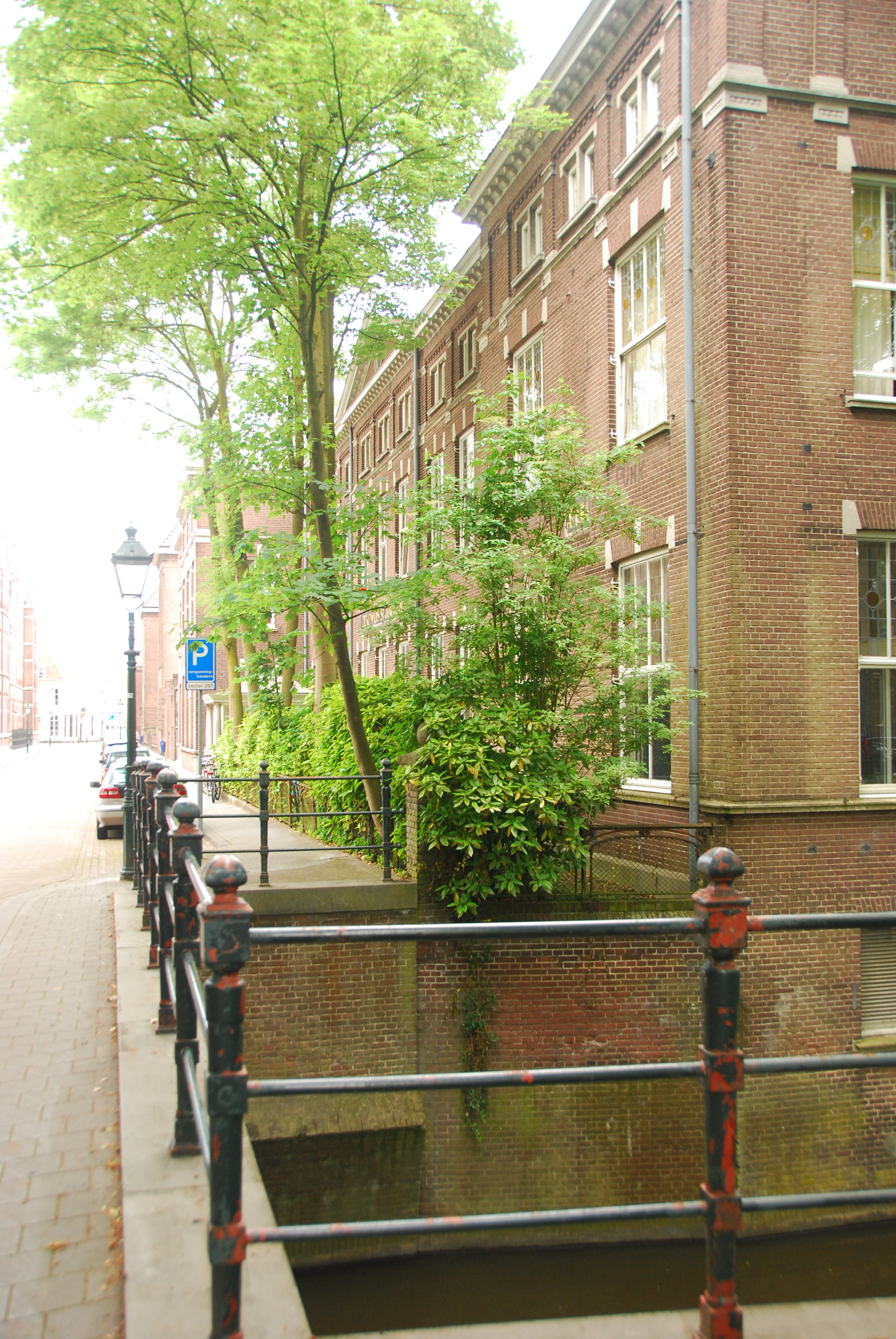 Former hospital Johannes de Deo in the dutch city of 's-Hertogenbosch